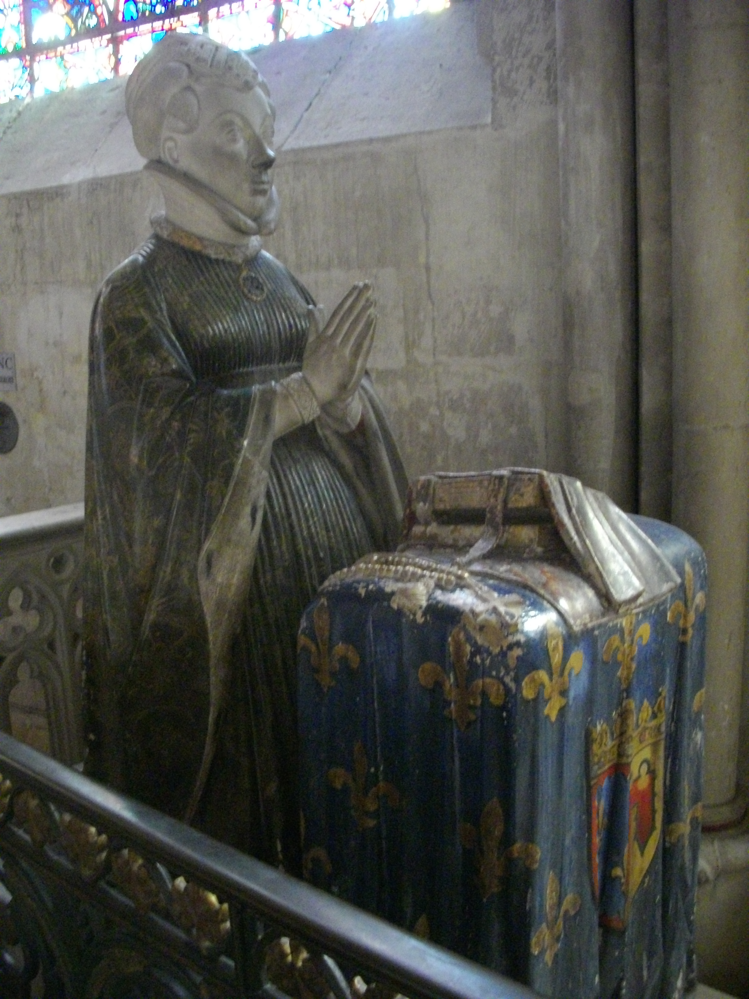 Saint Stephen cathedrale of Bourges (Cher, France) .